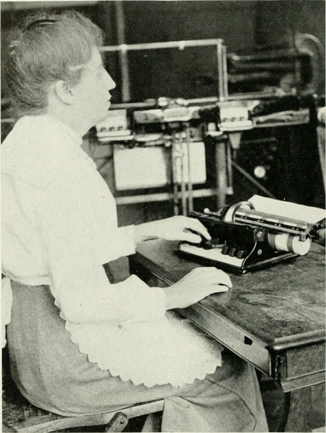 Title: The American Museum journal Year: c1900-(1918) (c190s) Authors: American Museum of Natural History Subjects: Natural history Publisher: New York : American Museum of Natural History Text Appearing Before Image: 566 THE AMERICAN MUSEUM JOURNAL Text Appearing After Image: A blind girl is operating the Braille typewriter which uses a system for the blind invented by a French teacher, Louis Braille, in which the characters are represented by raised dots. The "touch method" in typing here reaches the point of perfection